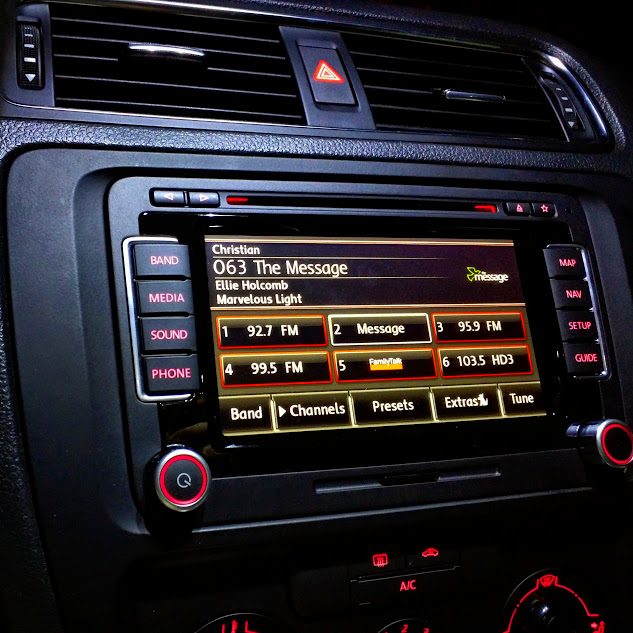 The RNS-510 radio offers SiriusXM Radio with station logos as well as TravelLink .